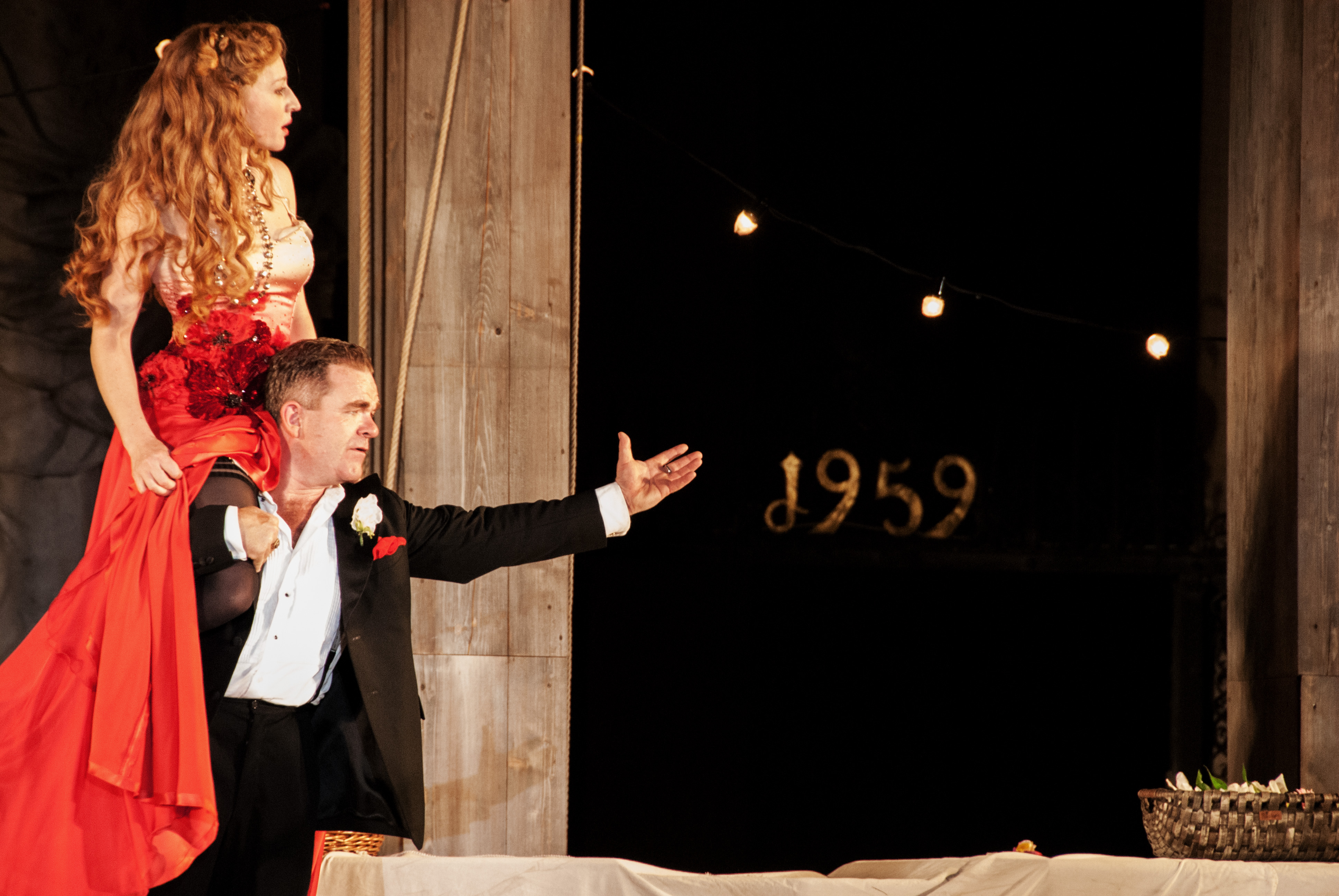 Jedermann and Buhlschaft (Cornelius Obonya and Brigitte Hobmeier), Salzburg Festival 2014